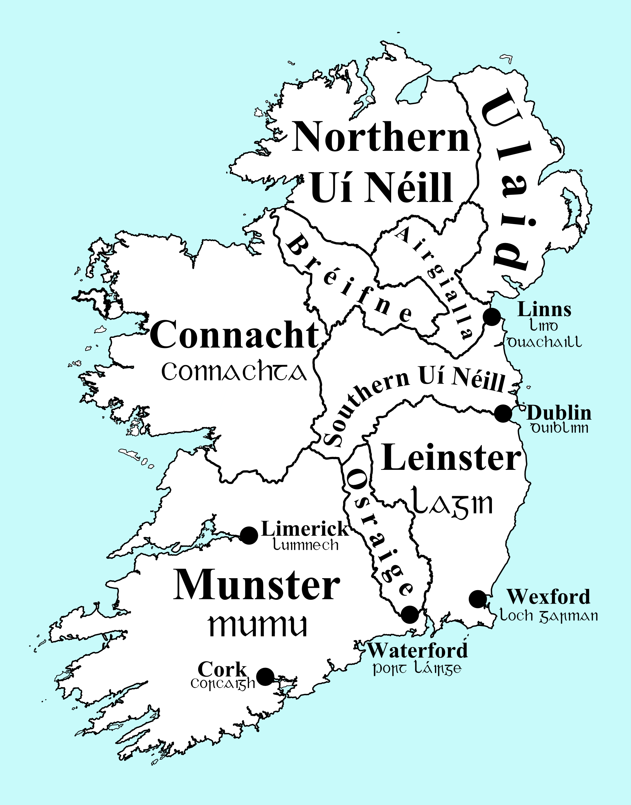 Map of Ireland, circa 900, with overkingdoms and principal (Viking) towns indicated.